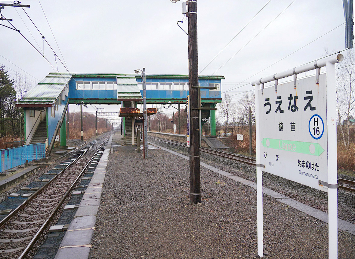 The platform of Hokkaido Railway Company (JR Hokkaido) Chitose Line Uenae Station